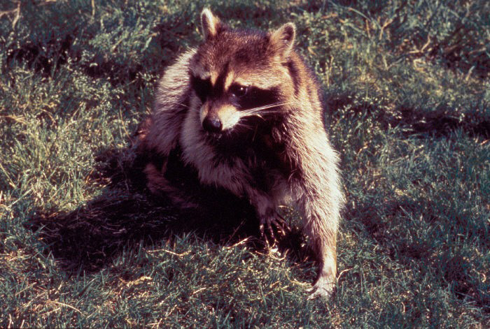 This image depicts a raccoon, Procyon lotor, an animal know to be a vector in the transmission of rabies to humans and other animals